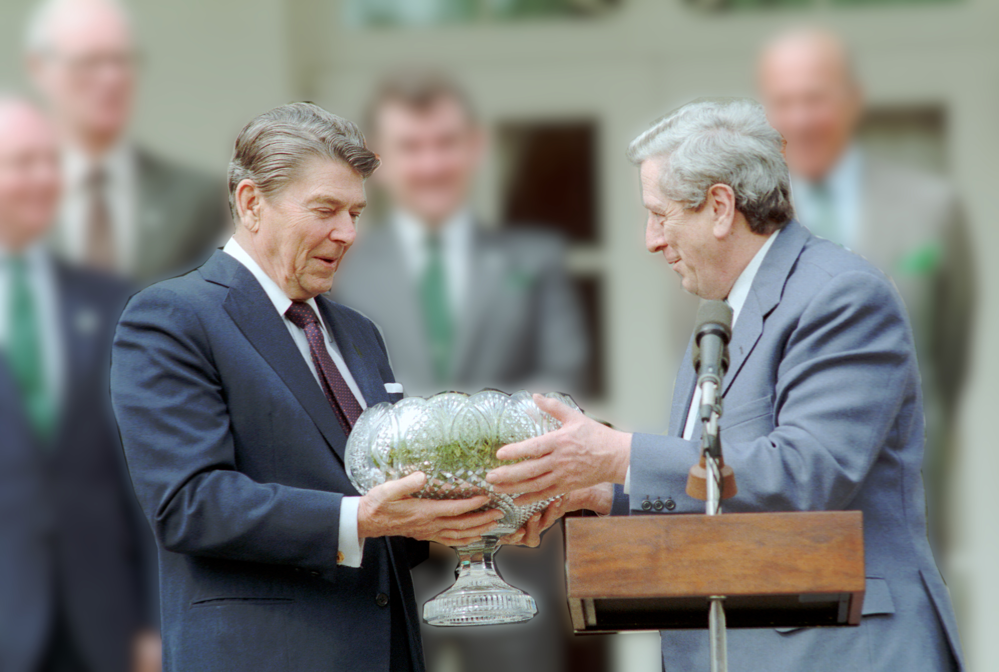 President Reagan Meeting with Garret FitzGerald Prime Minister of Ireland Ceremony [sic] in Rose Garden to receive Shamrocks in a Waterford bowl.